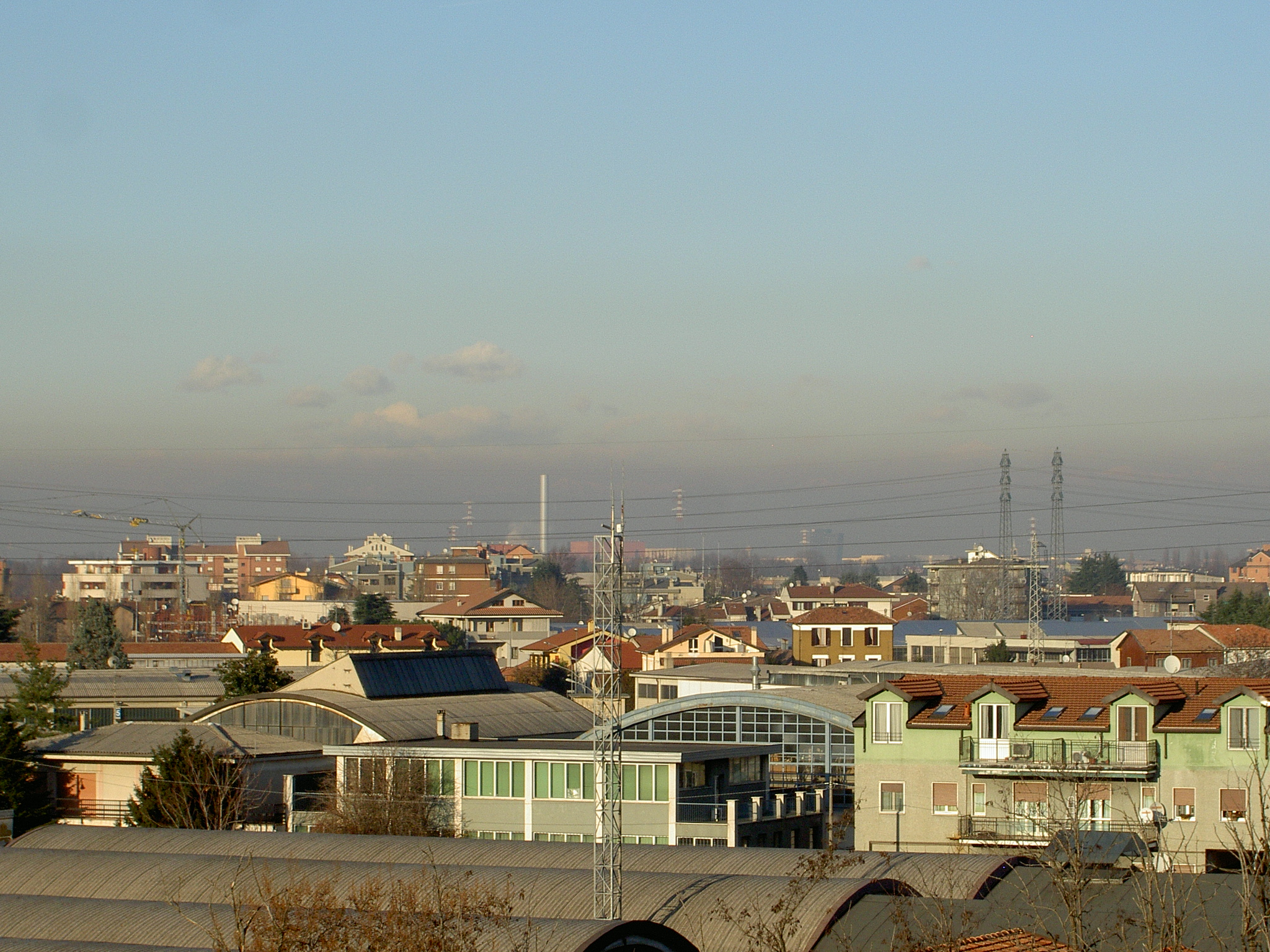 "Settimo Milanese" town, near Milan in Italy, as seen from South.